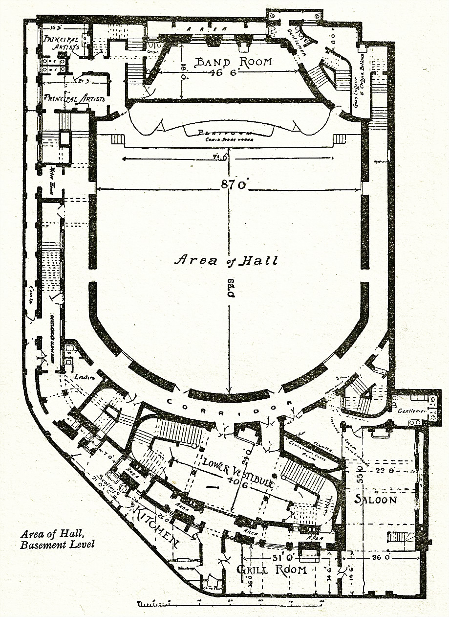 Ground plan of the Wikipedia:en:Queen's Hall